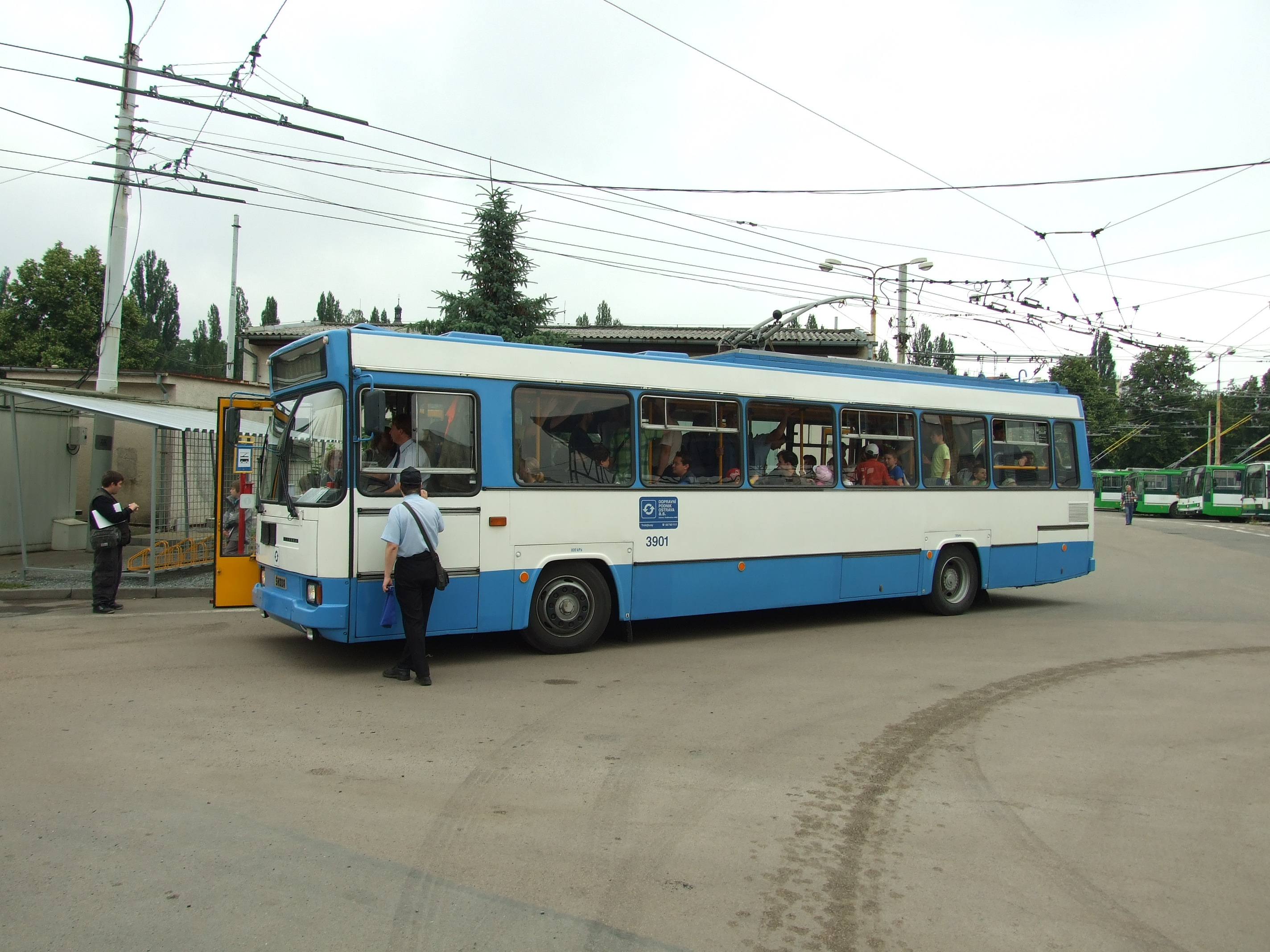 110th anniversary of public transport in Plzeň, Plzeň Region, CZhelp